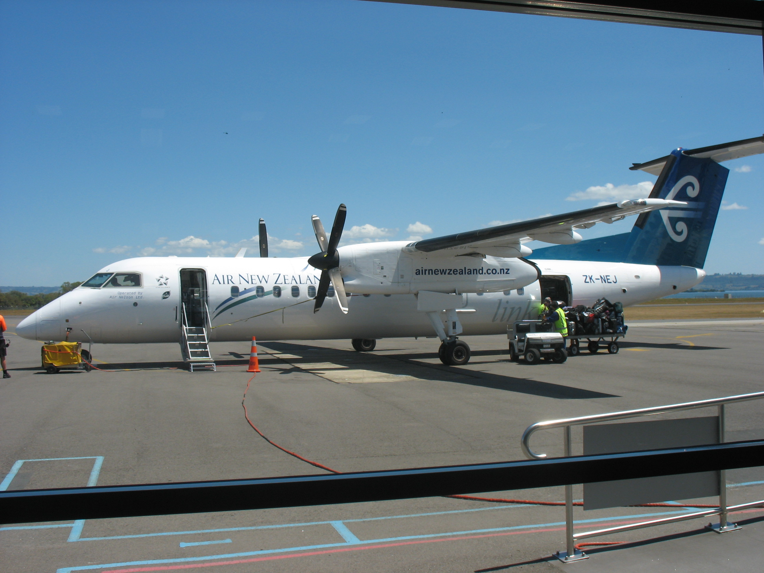 An Air New Zealand Bombardier Q300 parked at Rotorua Airport.